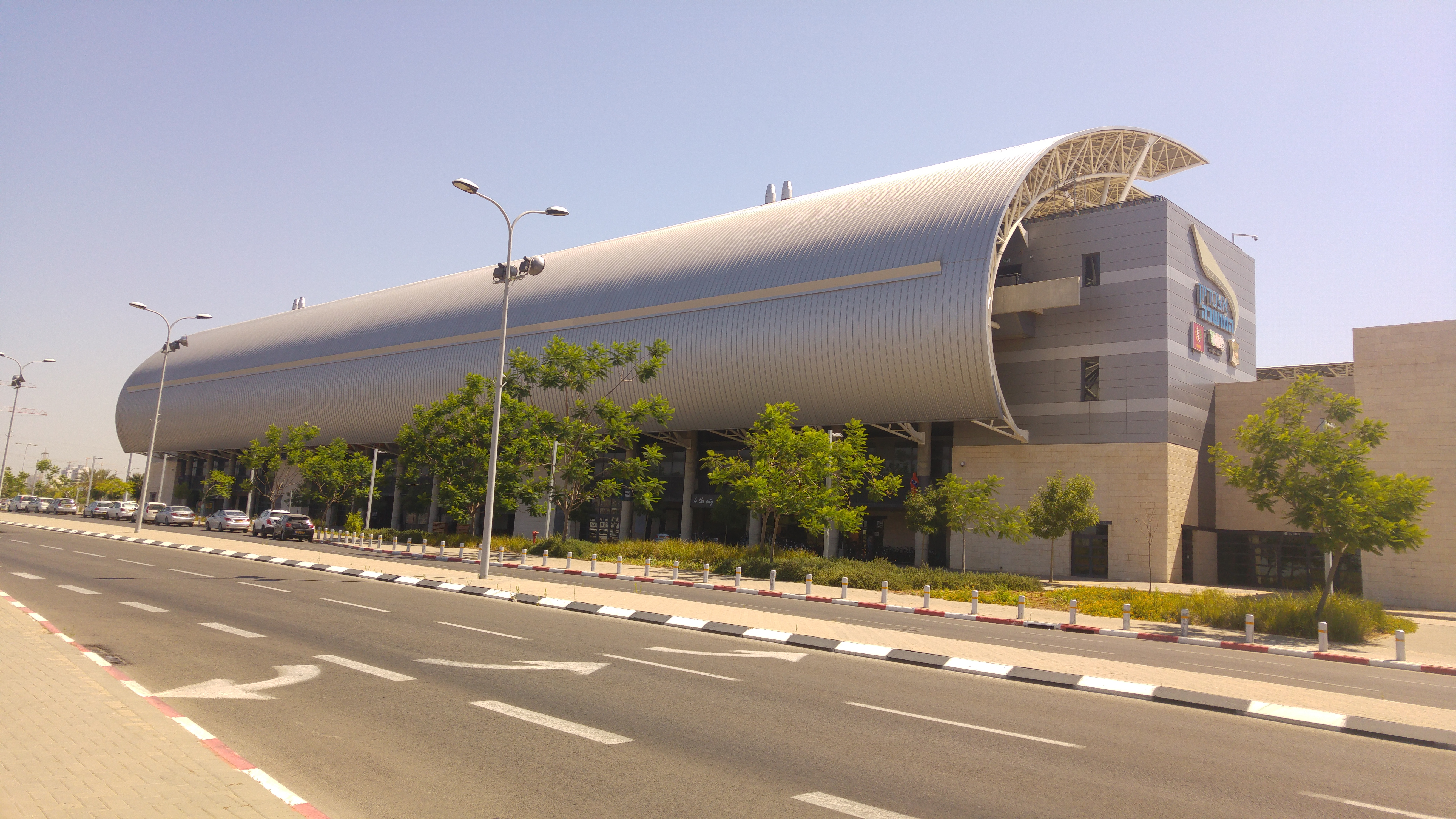 HaMoshava Stadium